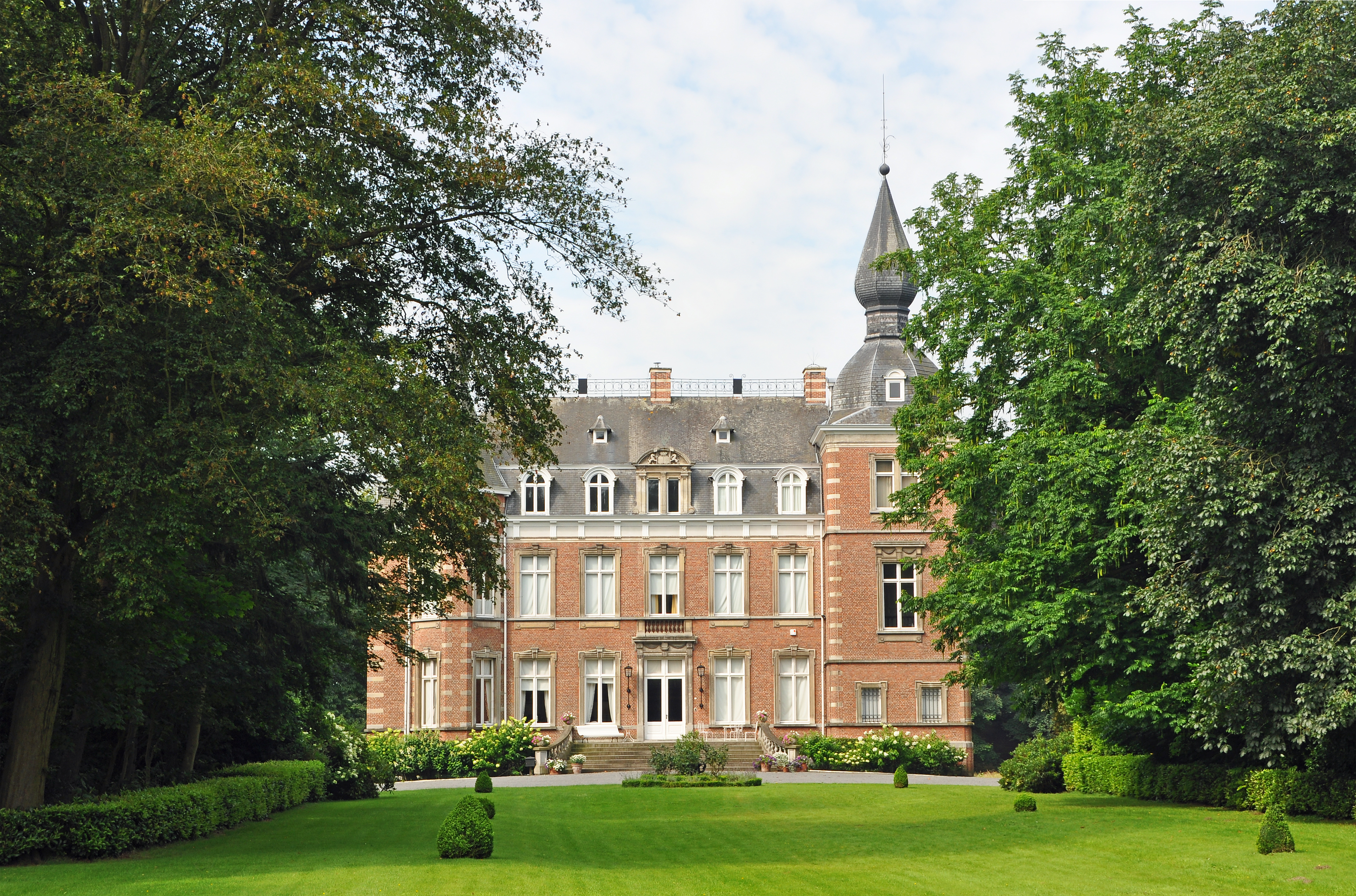 Ruddervoorde (Oostkamp, Belgium): Pecsteen Castle